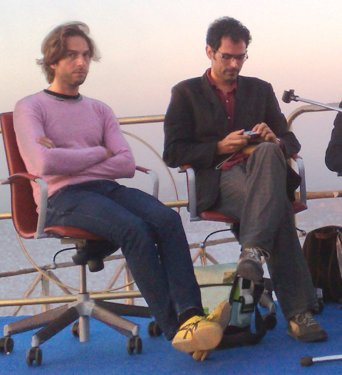 Gustav Hofer, Luca Ragazzi